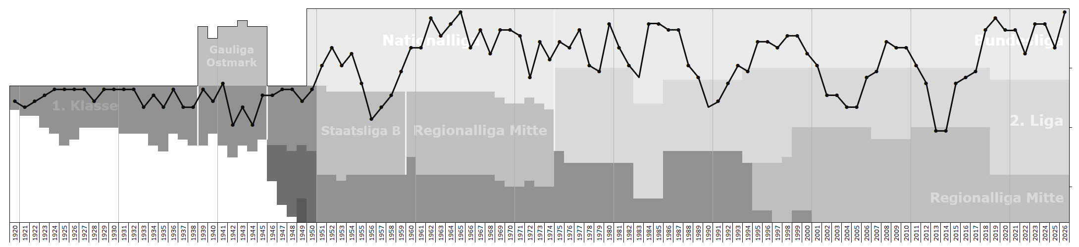 Chart of end-season table positions of LASK Linz in the Austrian football league system. Data source: RSSSF, , regiowiki.at, ofv.at, wikipedia